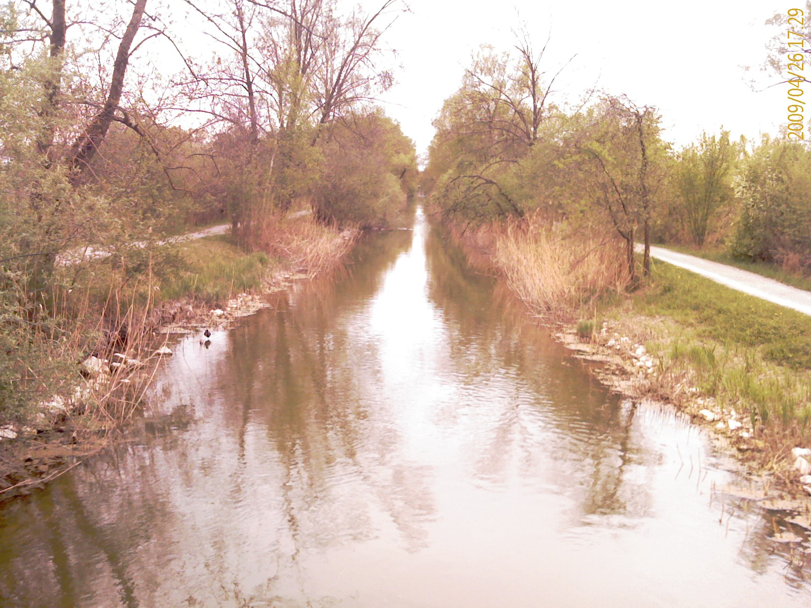 The river Glatt seen from the fist bridge immediately after its outflow of from lake Greifensee, canton of Zürich, Switzerland